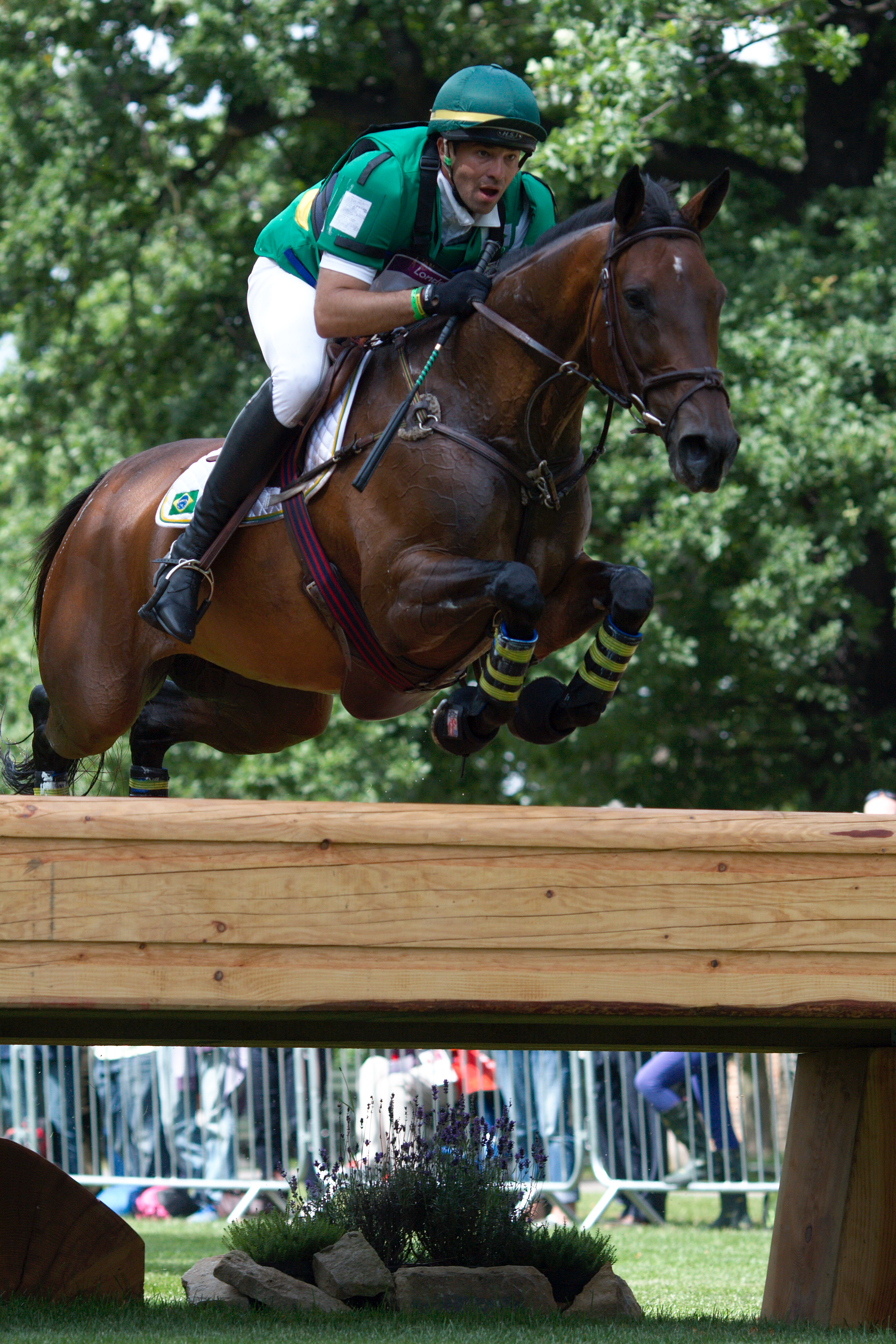 Marcio Carvalho Jorge and Josephine, competing for BRA, at fence 21, during the cross-country phase of the Eventing during the 2012 Olympic Games in Greenwich Park, London.